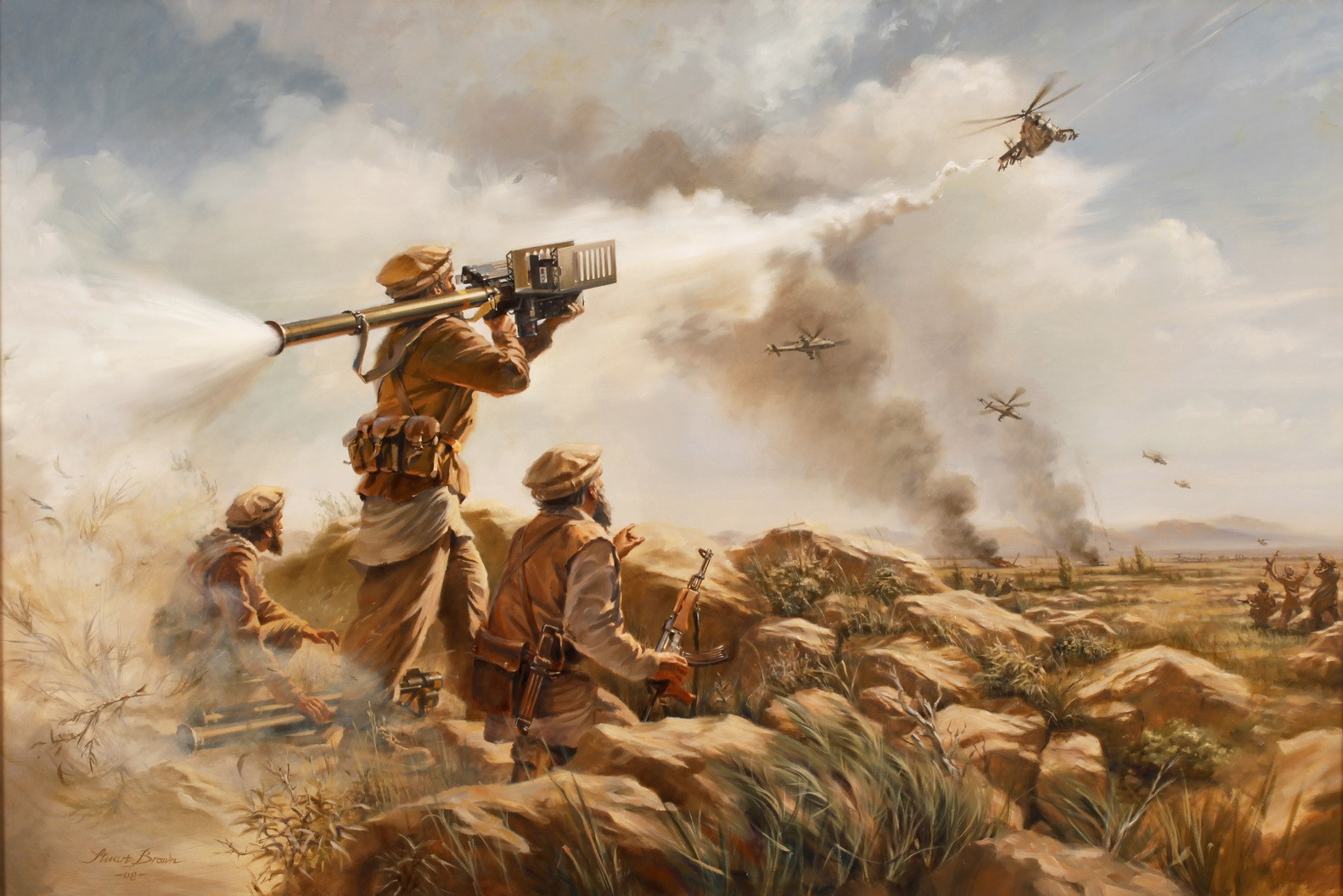 First Sting, Oil on Canvas. In 1979, the Soviets invaded Afghanistan to protect its new socialist puppet government. The US along with the vast majority of nations condemned this Soviet attempt to extend its colonial domination. The Mujahedin, Afghan rebels fighting Soviet occupation, were ill-equipped to defeat the far superior Soviet forces. Initially hoping to tie Moscow down in a prolonged war of attrition, the US provided the Mujahedin with only limited support. President Reagan championed the idea that if the Mujahedin forces actually defeated the Soviets in Afghanistan, the broader impact would be to stem future global communist aggression. By 1985, America’s attrition strategy gave way to a more aggressive approach intended to inflict a humiliating defeat on the Soviet Union. The most audacious move was a 1986 decision to supply the Mujahedin with heat-seeking, shoulder-launched Stinger antiaircraft missiles. These missiles turned the tide of the war by giving Afghan guerrillas the capability to destroy their most dreaded enemy weapon in the rugged Afghan battlefield—the Soviet Mi-24D helicopter gunship. The first three Stingers fired took down three gunships. Rebel morale soared overnight. Devastating Soviet losses mounted. A Soviet retreat was within sight. In 1988, President Gorbachev announced his intention to withdraw Soviet forces from Afghanistan. The last Soviet soldier left in February 1989. Foreign Minister Shevardnadze later lamented, “The decision to leave Afghanistan was the first and most difficult step. Everything else flowed from that.” This view implied that the Soviet defeat in Afghanistan led to the eventual fall of the Berlin Wall and collapse of the Soviet Union. First Sting depicts the turning point in the Afghan war with the first of many shoot-downs of Soviet helicopter gunships by Mujahedin fighters armed with Stinger missiles.